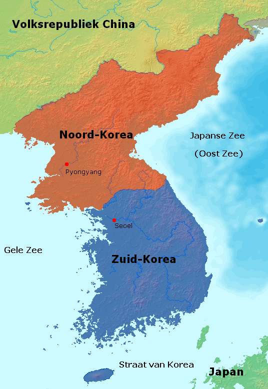 Cart of a divided Korea with Dutch nameplaces